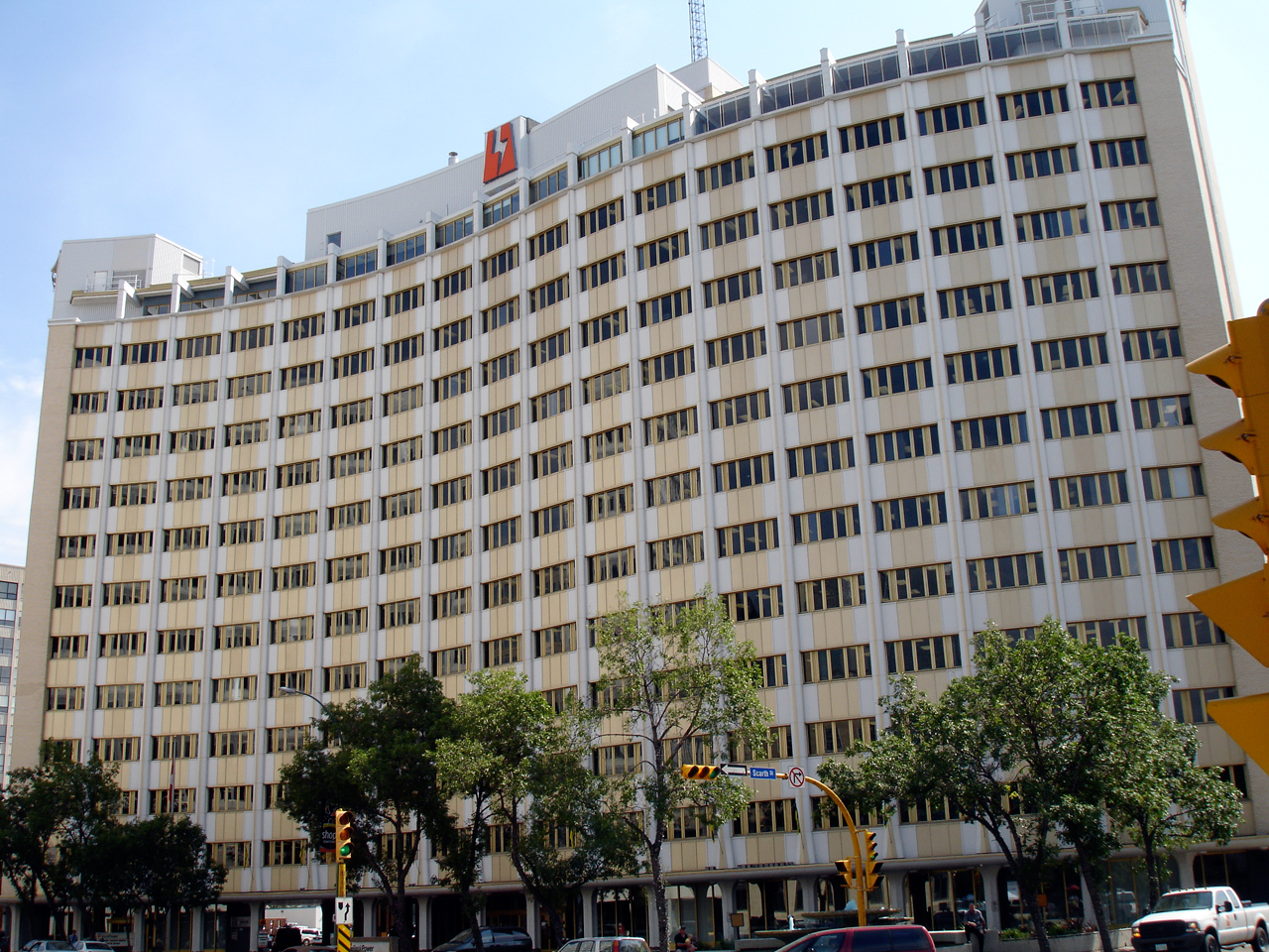 SaskPower's 13-storey headquarters is a very distinctive building with its sweeping curved shape. It was designed by architect Joseph Pettick, and opened in 1963. Pettick would go on to design several other buildings in Regina, including the C.M. Fines (SGI) Building, City Hall, and the Bank of Montreal Building.